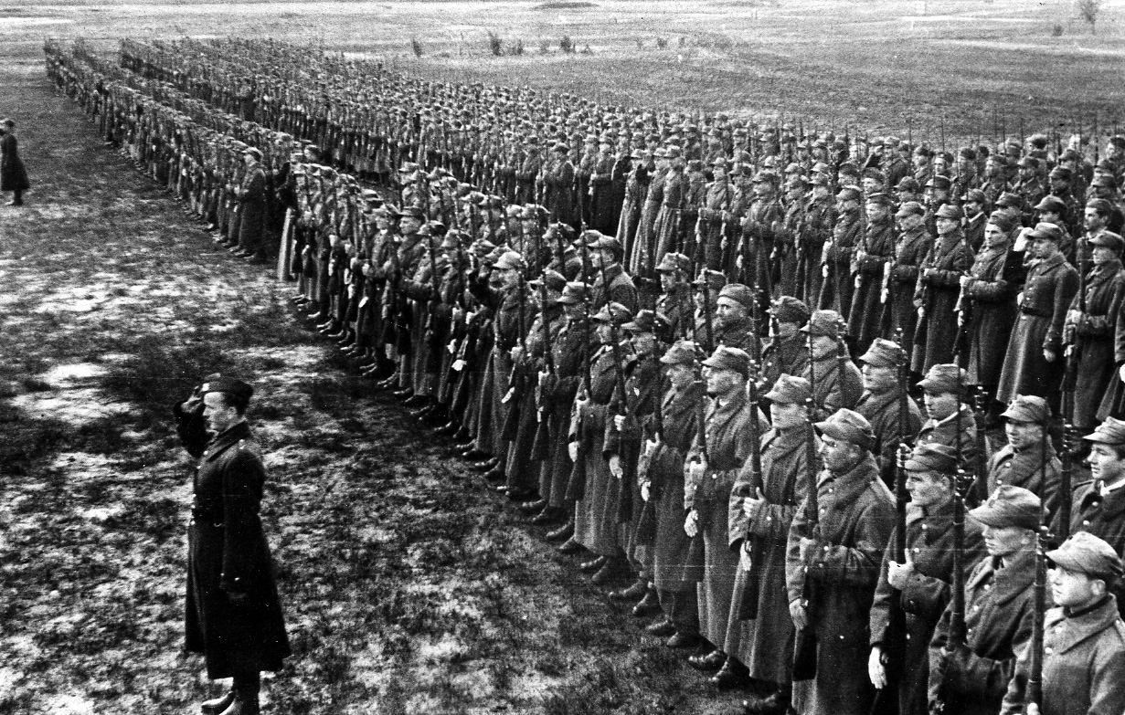 Forces of Polish Army in Russia 1942 (under command of Gen. Władysław Anders)